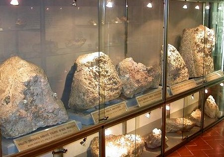 Elba Island